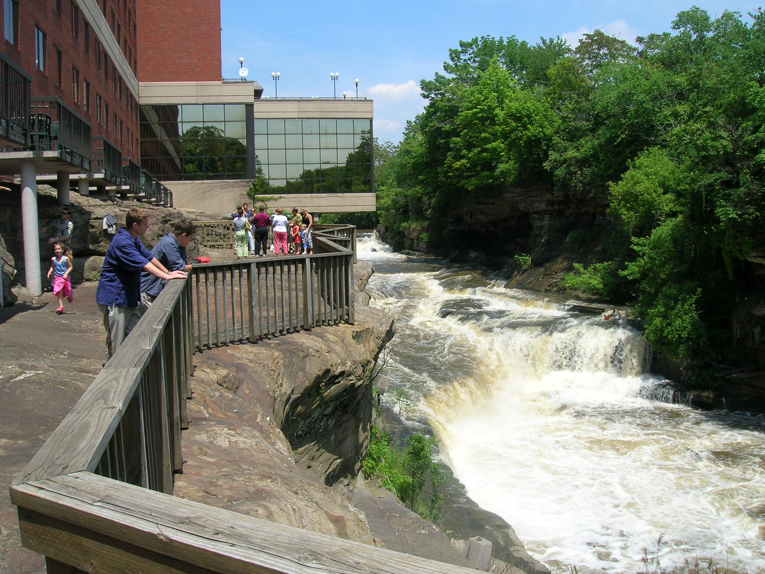 The Cuyahoga River descends through downtown Cuyahoga Falls behind the Sheraton Suites located on Front Street.